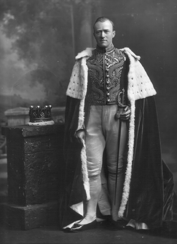 Antony Francis Nugent, 11th Earl of Westmeath